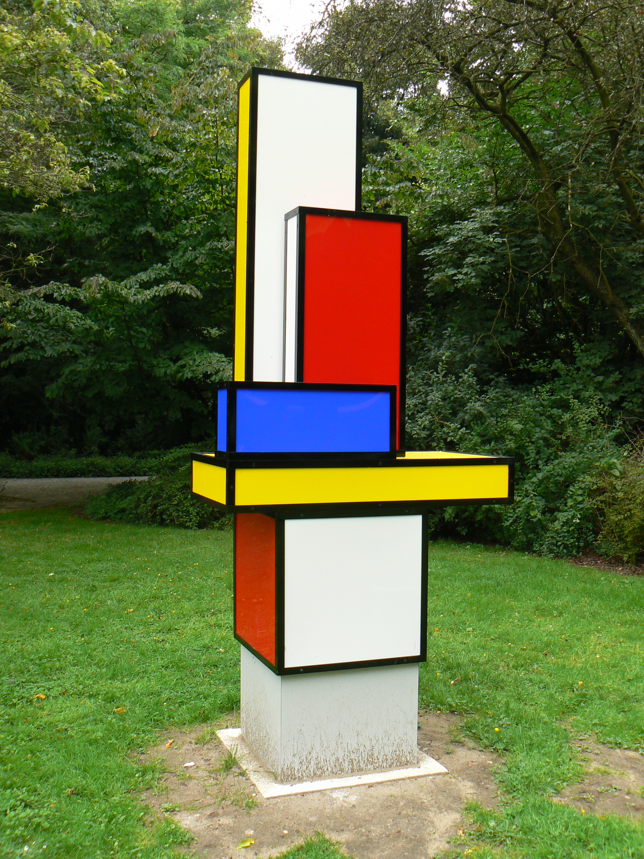 Lightsculpture (since 2008) by Walter Dexel in sculpture park at Quadrat Bottrop in Bottrop/Germany